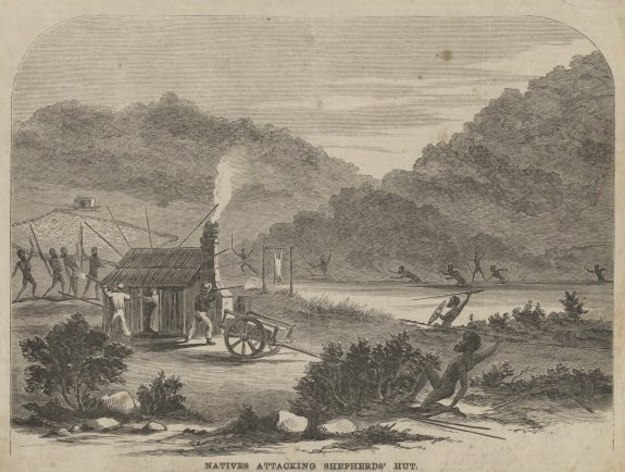 National Library of Australia picture nla.pic-an8957159. 'Natives attacking sheperds' hut'.